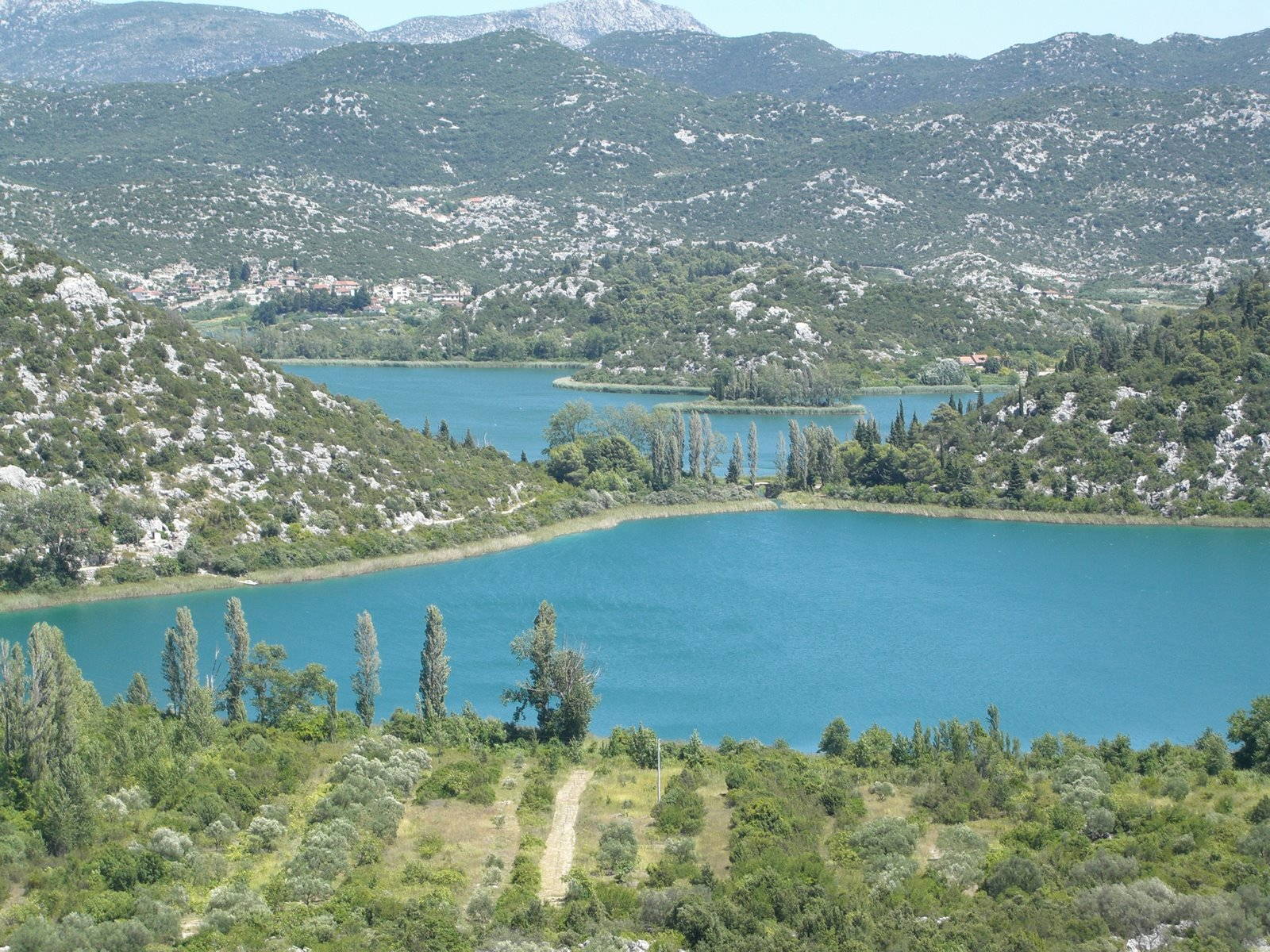 Baćinska Lakes, Croatia.